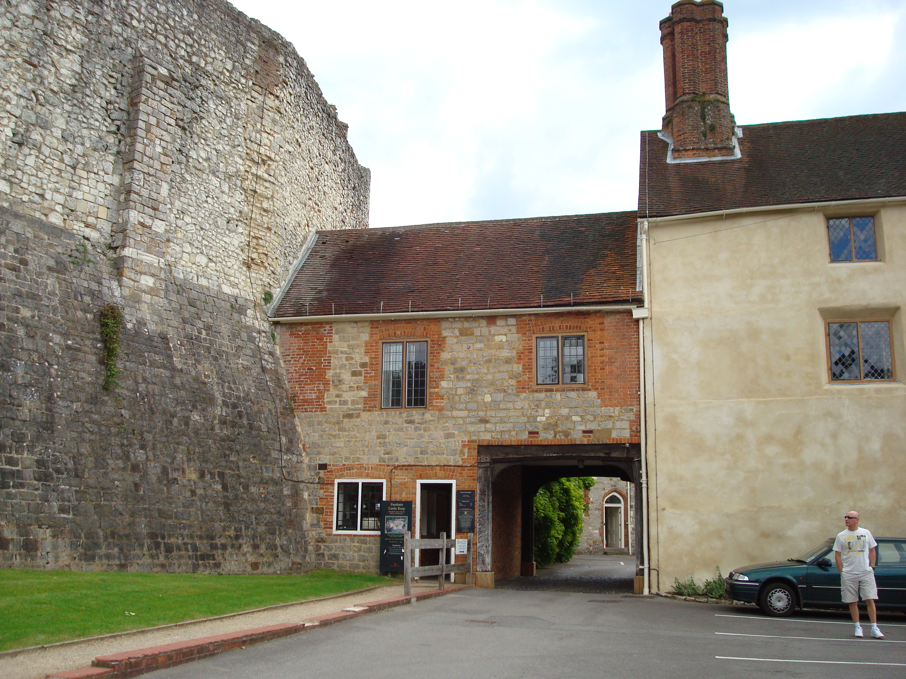 The entrance to Farnham Castle. Suzanne Knights, my photo, Sep 2007